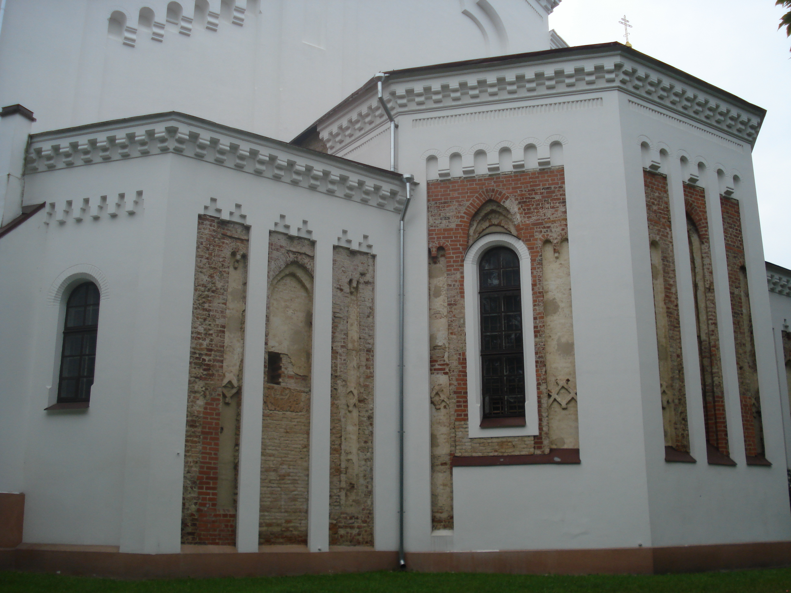 Orthodox Cathedral of the Dormition of the Theotokos in Vilnius